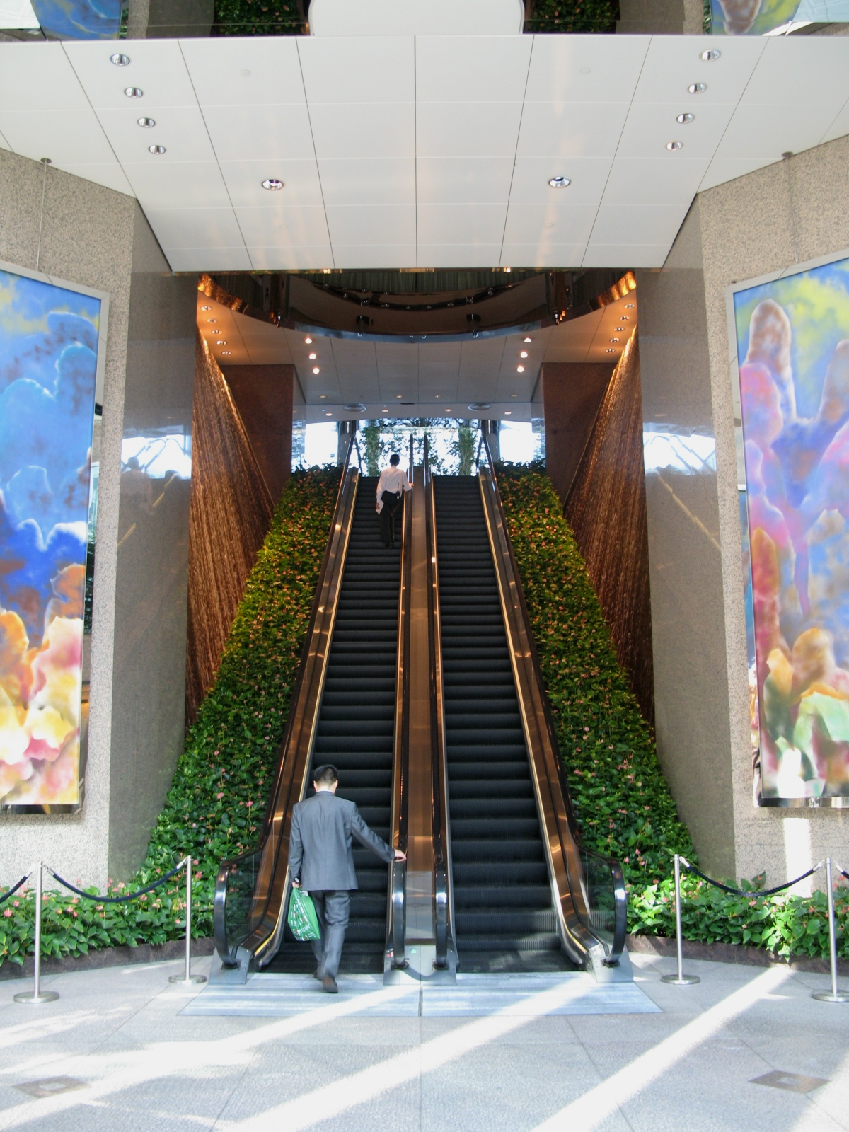 HK Exchange Square Entrance The color mural on the left and right sides is Landscape by Sidney Nolan (partial view only on this picture)